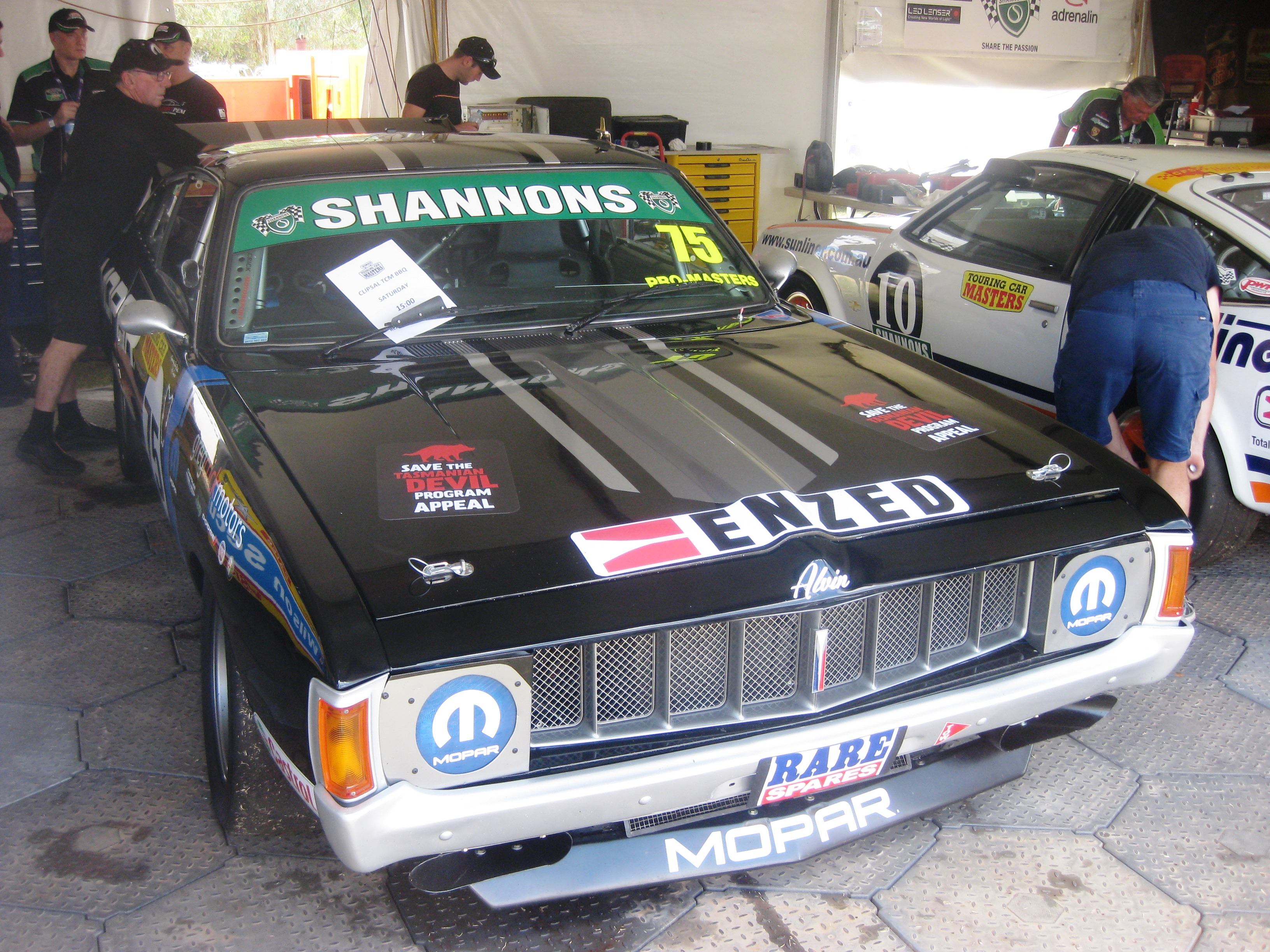 The Chrysler Valiant Charger E55 (VJ) of Greg Crick at the Adelaide round of the 2015 Touring Car Masters